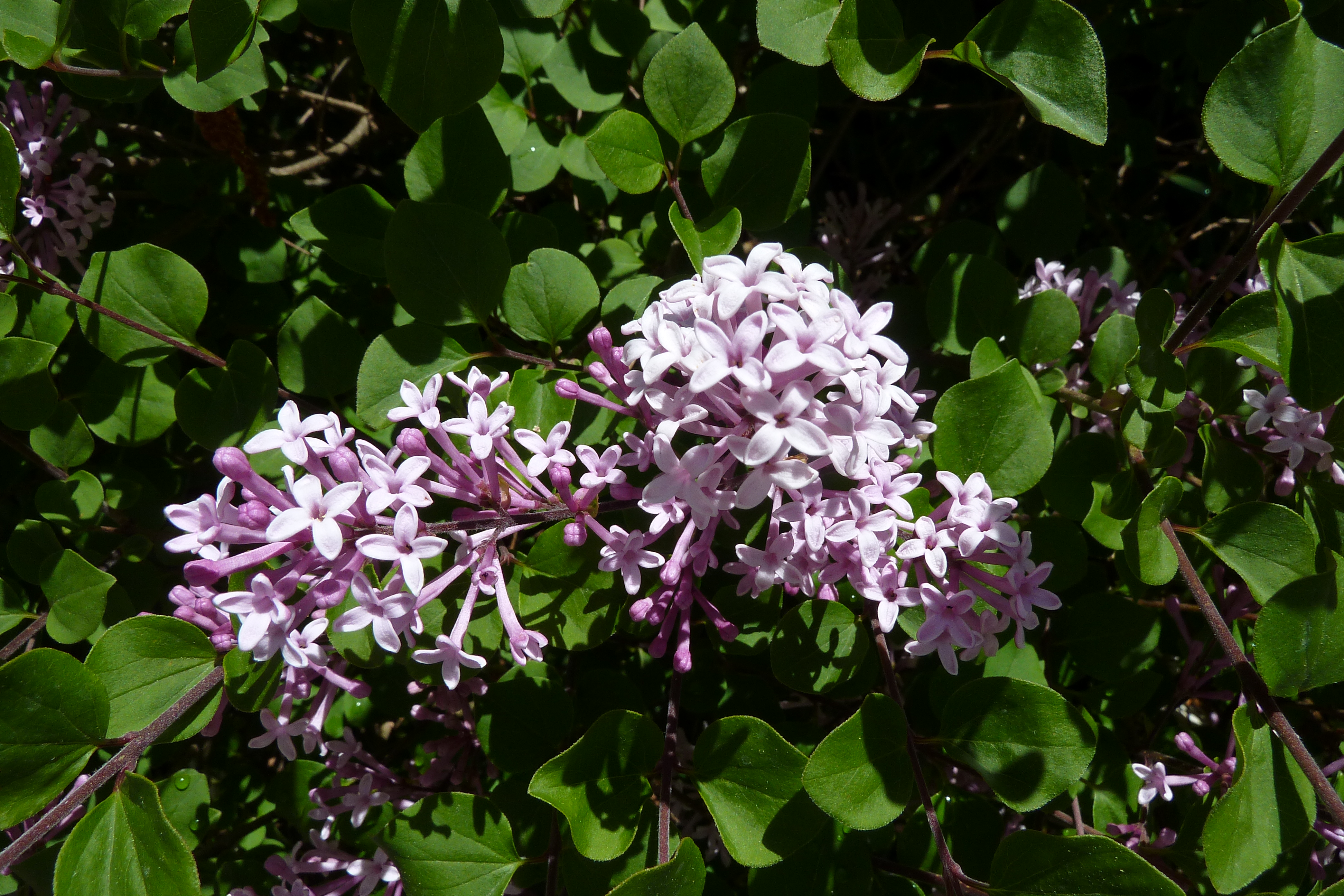 Dwarf lilac, Syringa meyeri 'Palibin'